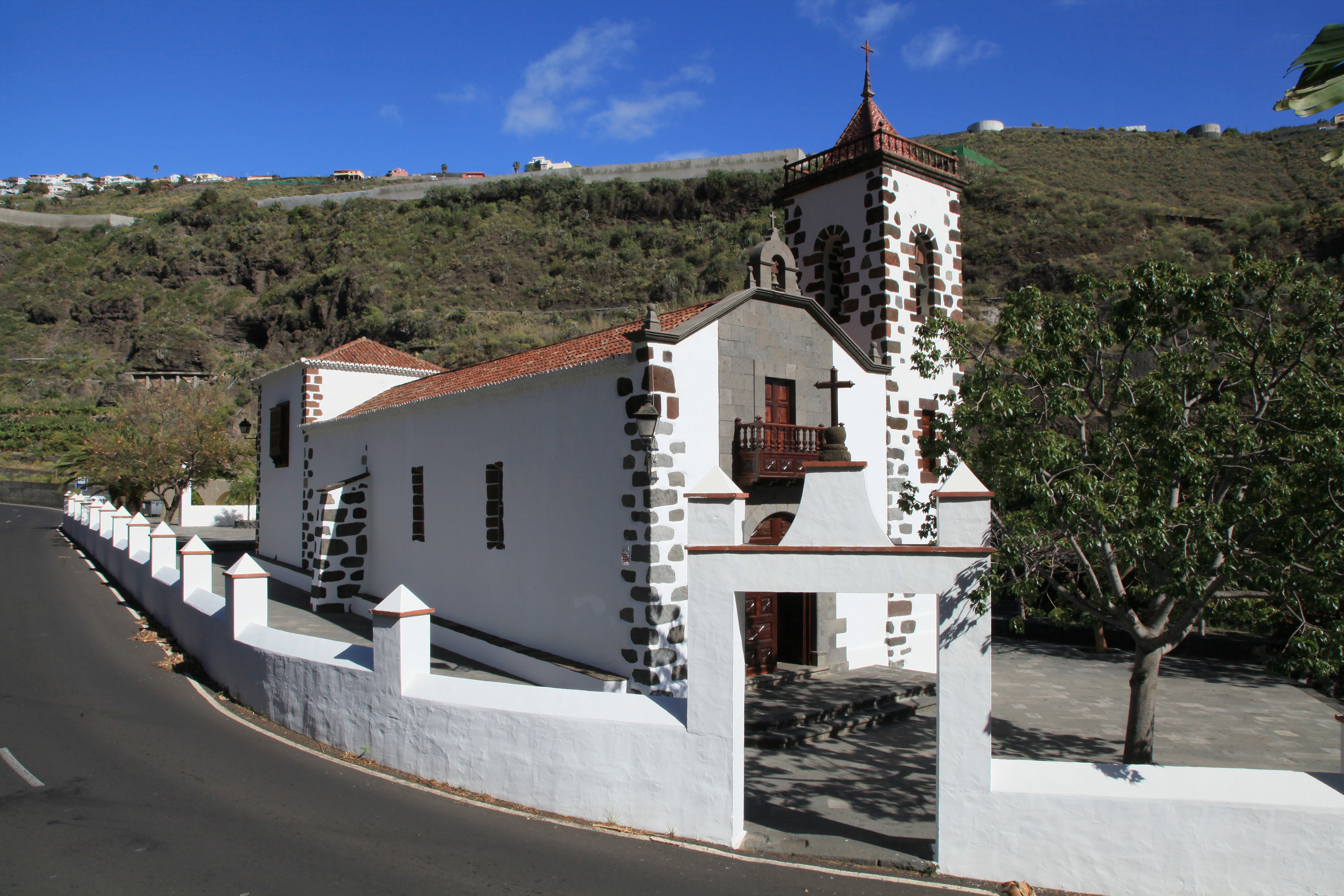 Santuario de Nuestra Señora de Las Angustias, Carretera Las Angustias El Puerto (LP-120) in Los Llanos de Aridane, La Palma, Canary Island, Spain